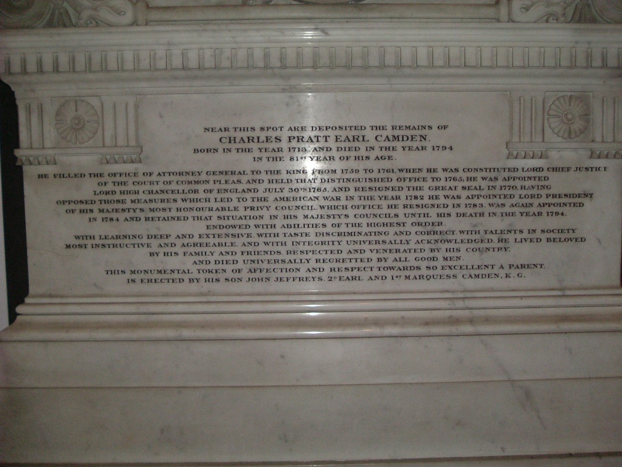 Memorial to Charles Pratt, 1st Earl Camden, in St Peter and St Paul, Seal, near Sevenoaks, Kent, England, UK.